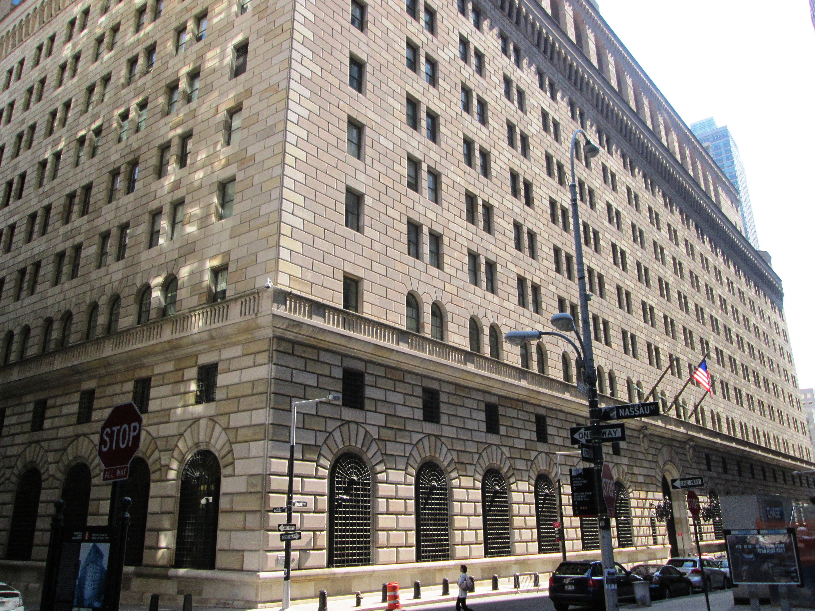 The Federal Reserve Bank of New York Building at 33 Liberty Street and occupying the full block between Liberty, William and Nassau Streets and Maiden Lane in the Financial District of Manhattan, New York City was built from 1919 through 1924, with an extension to the east built in 1935, all designed by York and Sawyer with decorative ironwork by Samuel Yellin of Philadelphia. (Sources: AIA Guide to NYC (5th ed.) and Guide to NYC Landmarks (4th ed.))